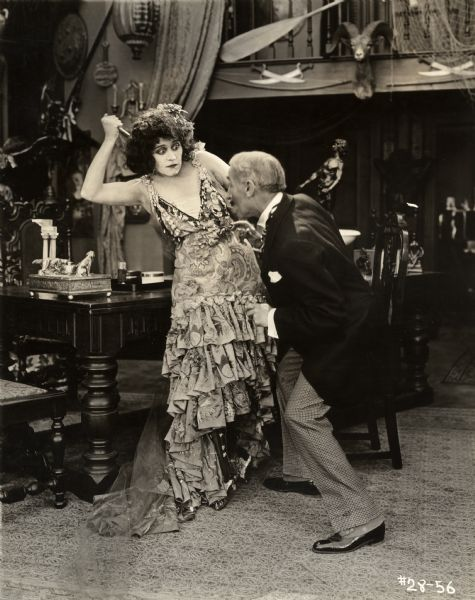 Lolette, the Spanish peasant girl (played by Theda Bara) uses a knife to defend herself (from an unidentified actor) in a scene still for the 1918 silent drama The She-Devil.